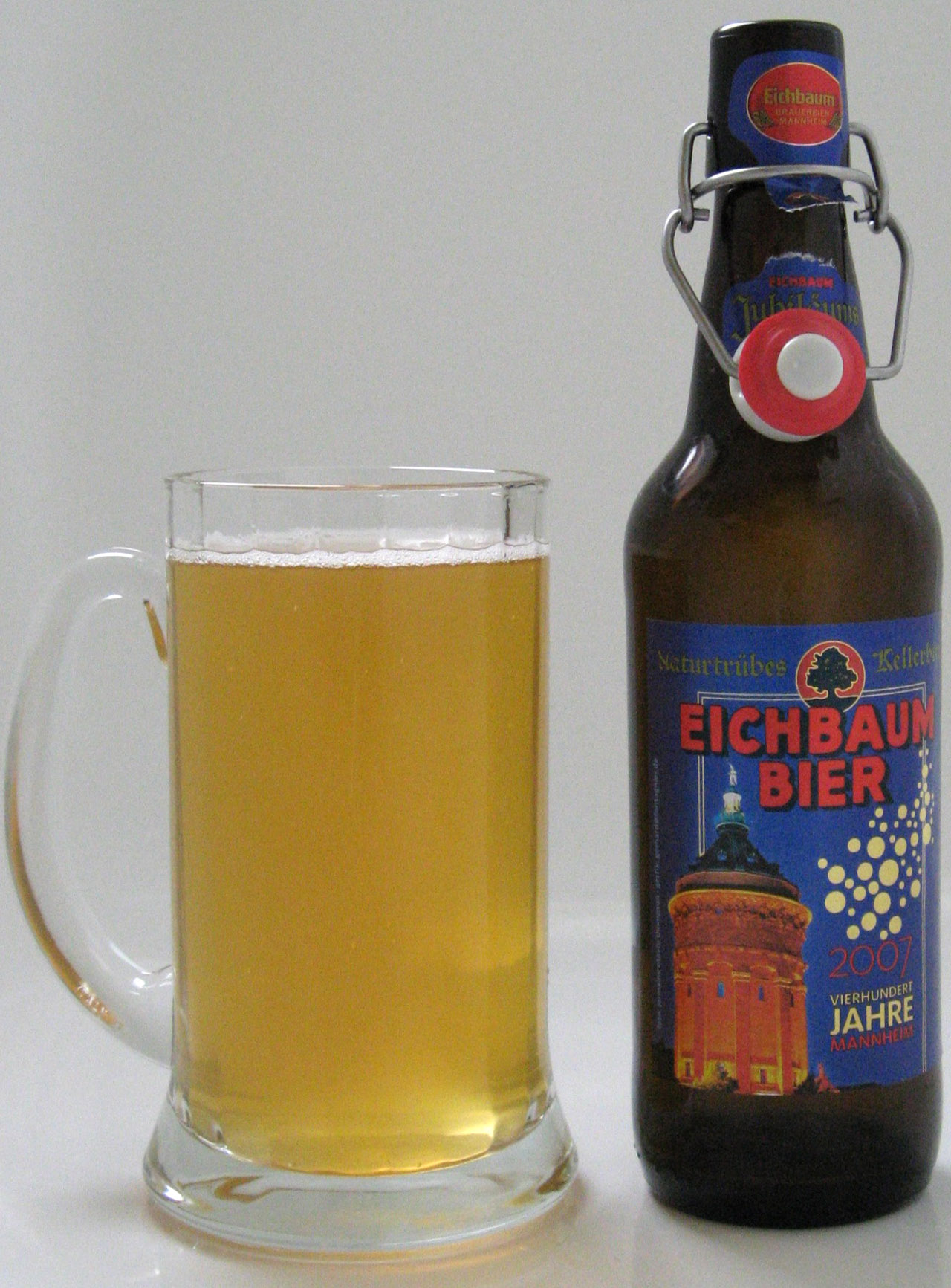 Kellerbier (Kellerbier, Zwickelbier), a special unfiltered kind of beer. A bottle of "Eichbaum" beer, special edition for the 400 years anniversary of a German city of Mannheim.